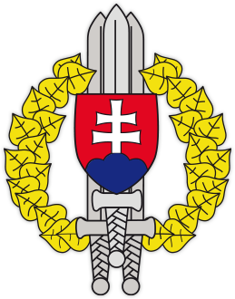 The official emblem of the armed forces of the Slovak Republic.